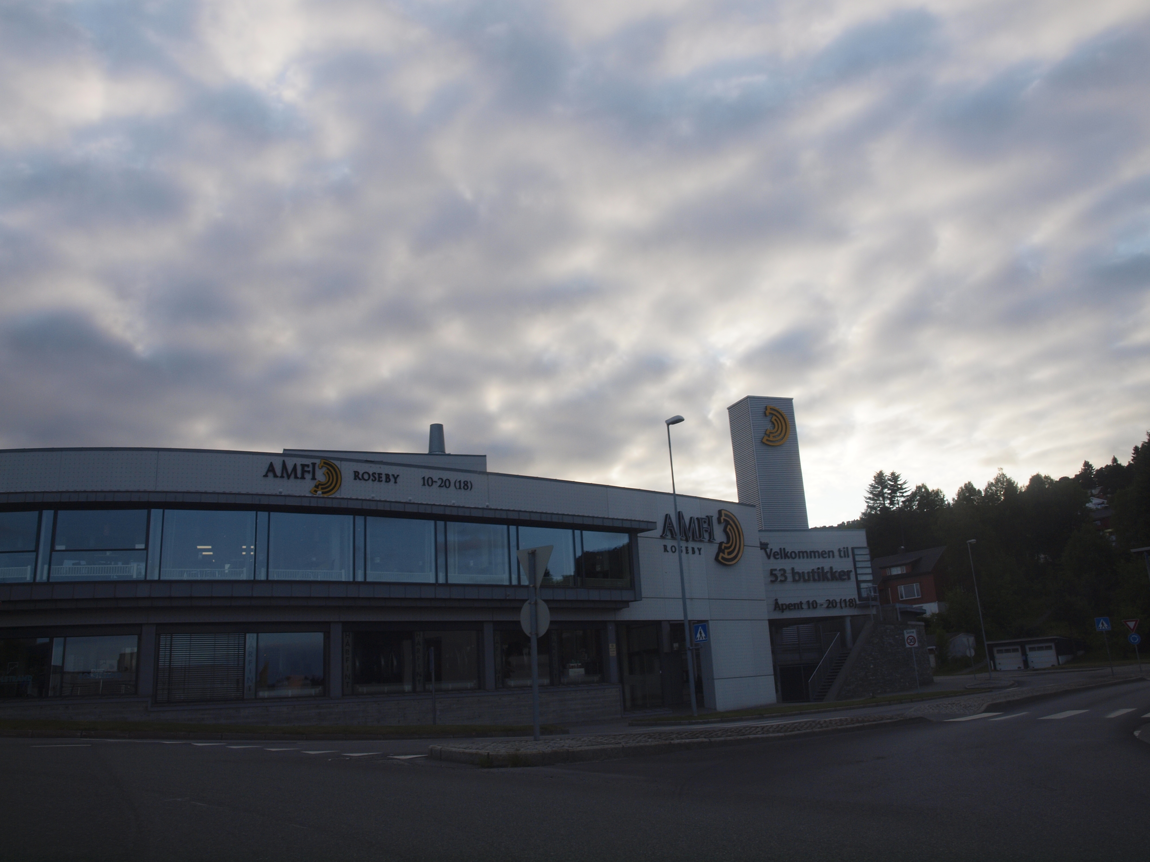 Road in Molde, Norway